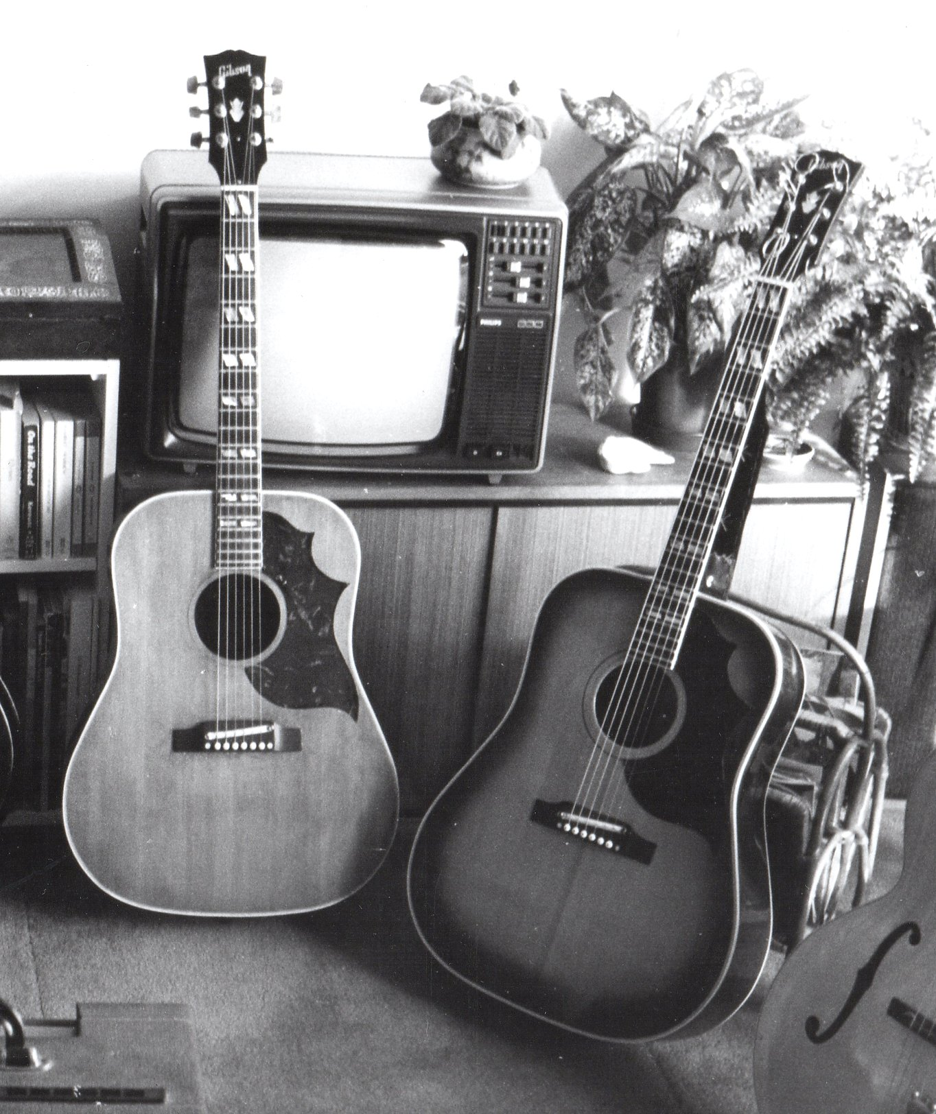 A 1964 Gibson "Country Western" acoustic guitar (left) with a 1964 Southern Jumbo (SJ) (right) (Tony Rees photograph)